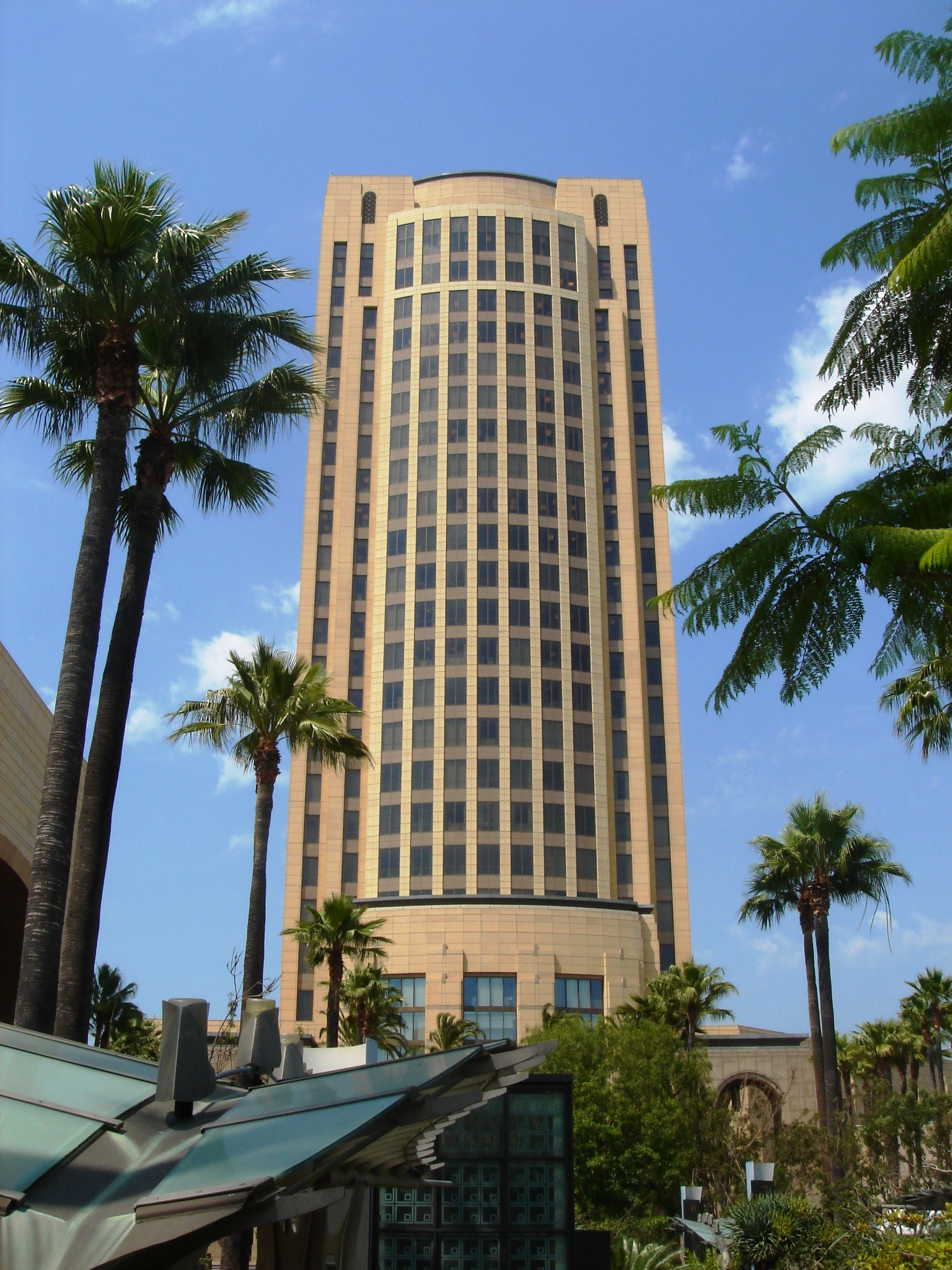 Los Angeles Gateway Plaza, Metro Authority Office